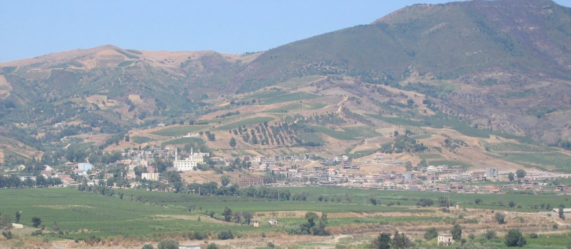 Sidi-Daoud, Algeria, viewed from across the river.